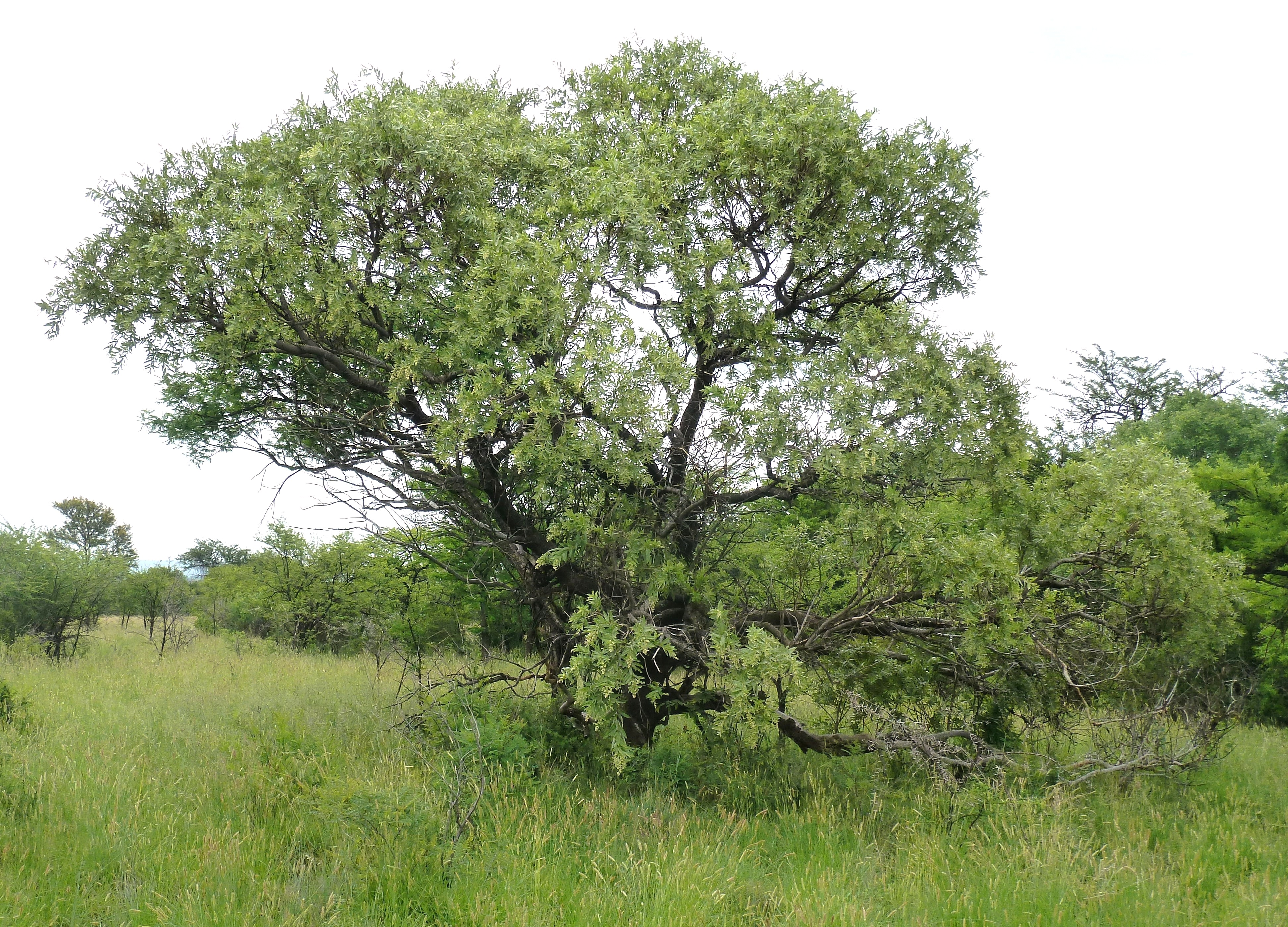 Habit of a Resin tree in Roodeplaat Nature Reserve near Pretoria